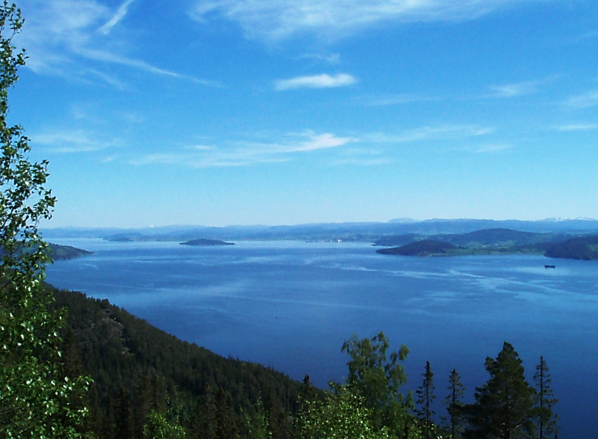 Trondheimsfjorden seen towards eastnortheast from a hillside in Mosvik, Skogn and Levanger in sight